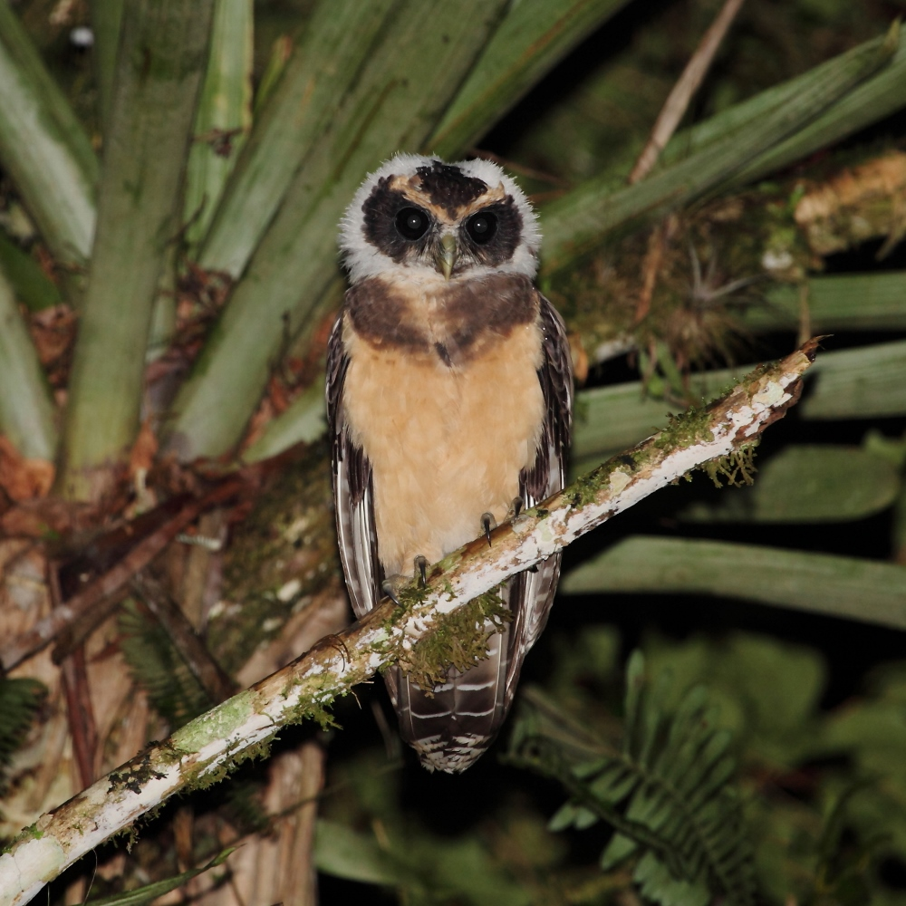 Tawny-browed Owl (Young) at São Luiz do Paraitinga - SP - Brazil